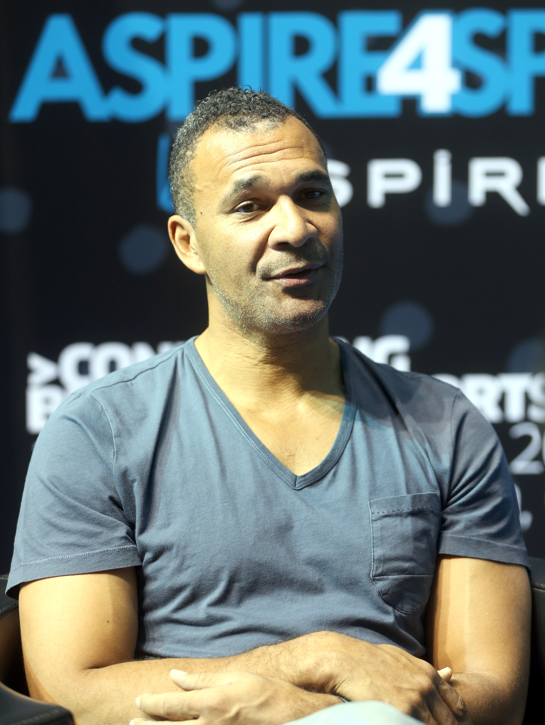 Dutch football legend Ruud Gullit during the Aspire4Sport Congress in Doha. Picture by Mohan